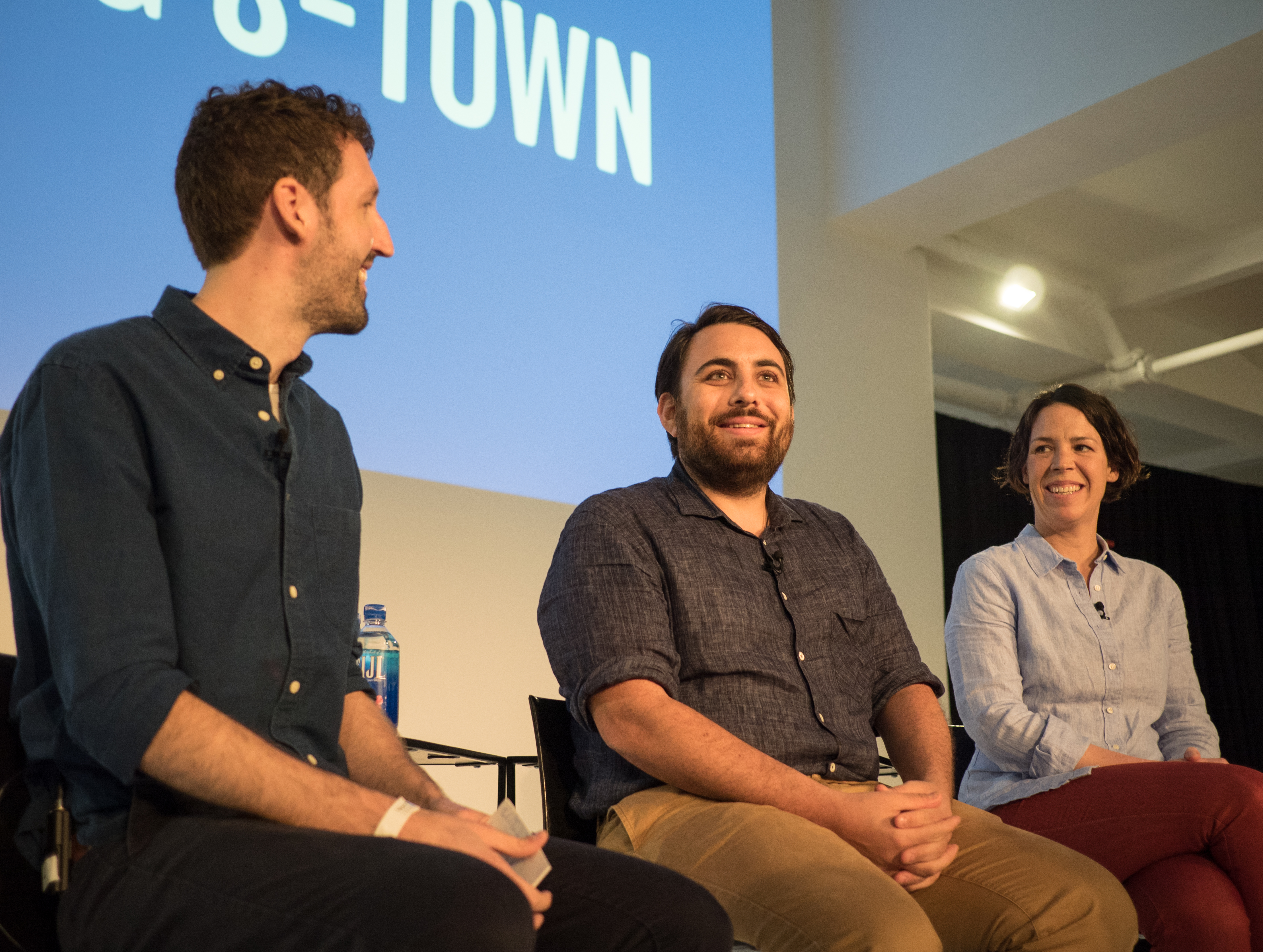 Brian Reed and Julie Snyder interviewed for the Revisiting S-Town session at Vulture Festival in NYC.